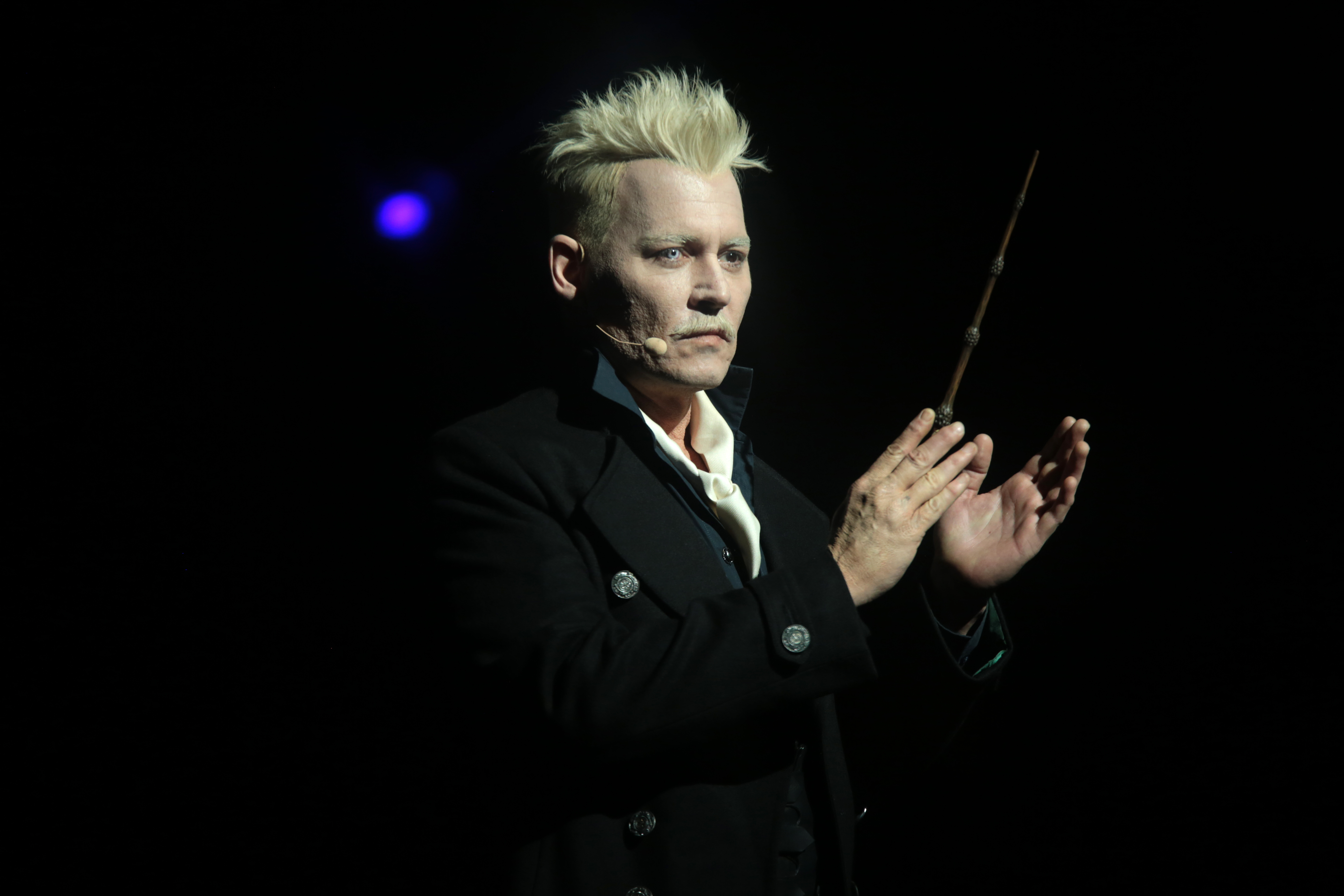 Johnny Depp speaking at the 2018 San Diego Comic Con International, for "Fantastic Beasts: The Crimes of Grindelwald", at the San Diego Convention Center in San Diego, California.